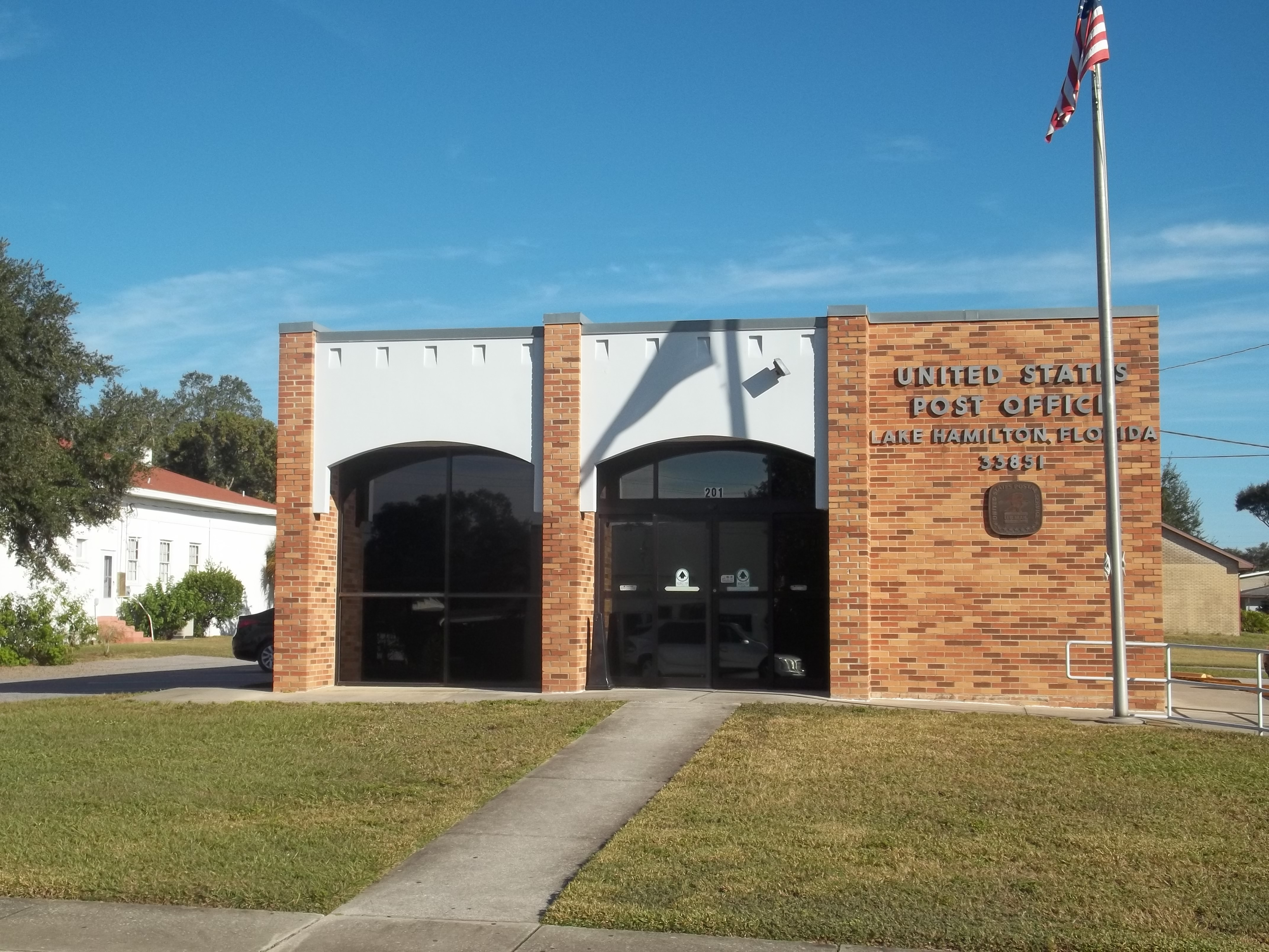 Lake Hamilton, Florida: Post office